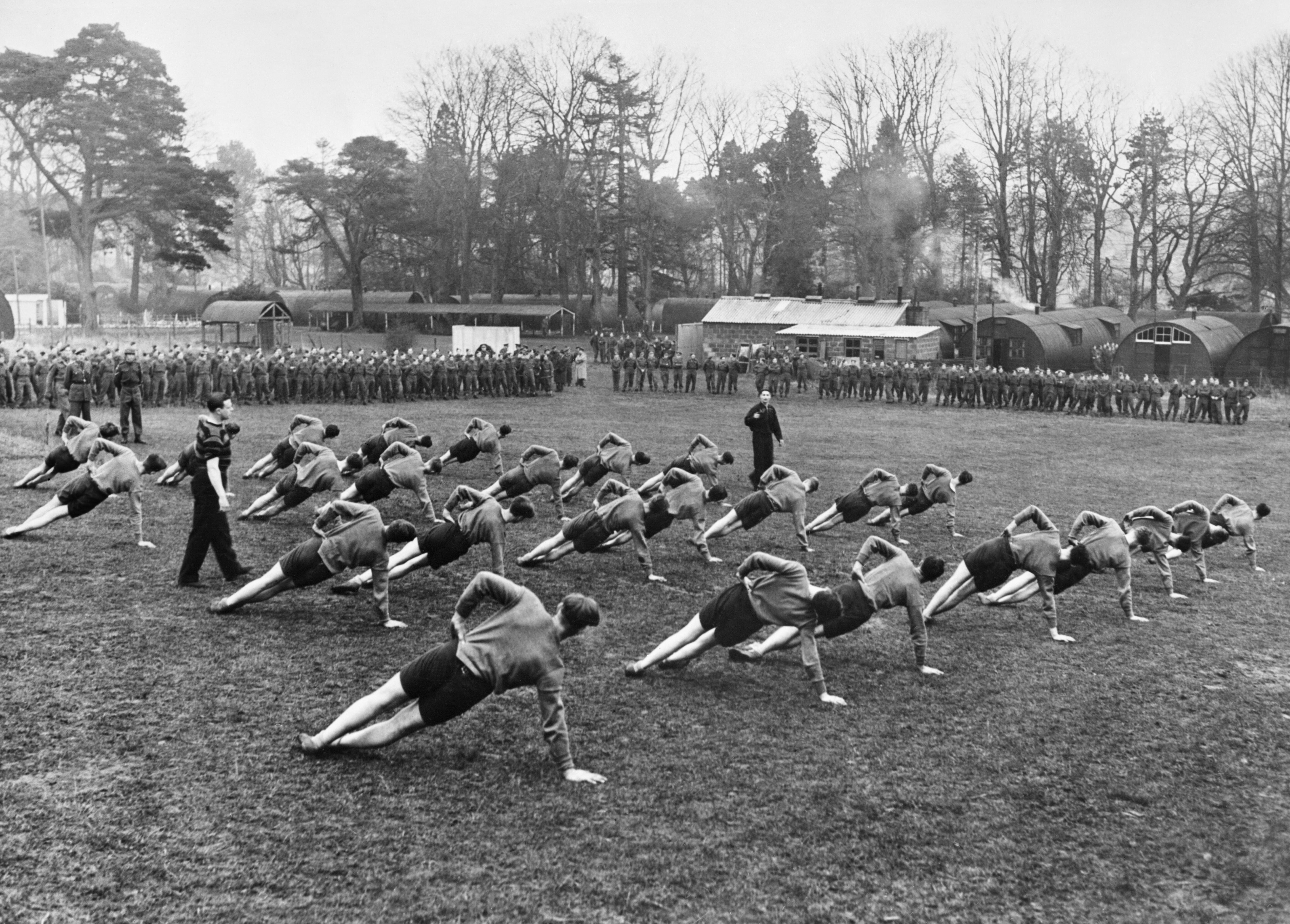 Belgian Commandos in Training, UK, 1945 A platoon of British troops that has completed 12 weeks Commando training gives a Physical Training display to men of the 1st Battalion, 2nd Belgian Brigade, at a camp, somewhere in Britain. The Belgians can be seen in rows around the edge of the field. The Nissen huts and other barrack buildings can be clearly seen in the background.